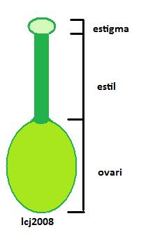 picture o stylus of a flower